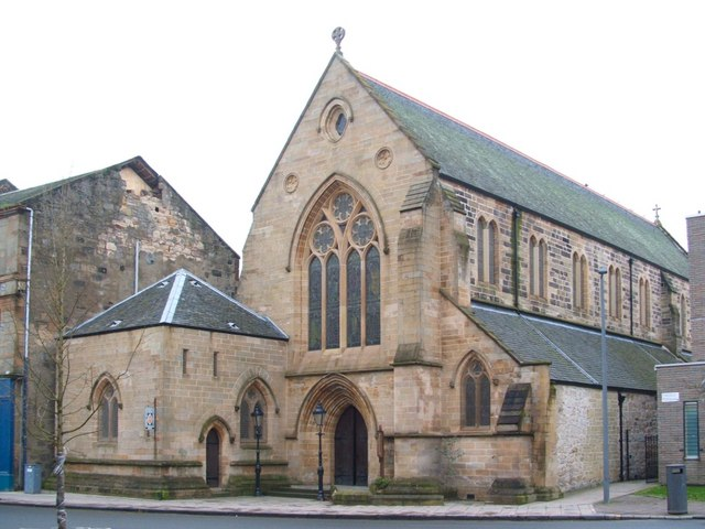 St Augustine's Episcopal Church The church (Scottish Episcopal) was built in 1871-73 (the architect was Sir Robert Rowand Anderson). It formerly had a parsonage on the north, and a linking hall that was added in 1907; however, these additions, both by A C Denny, have now been demolished. [Information from a leaflet, "Dumbarton Heritage Trail", in the "West Dunbartonshire Heritage" series.] [Note: In this photograph, there is visible damage to the gable end wall of the building standing to the left of the church. About two weeks before the picture was taken, part of that sandstone wall collapsed. There were no injuries, but the families occupying the building were evacuated until it could be made safe; in addition, the section of road in front of the church was temporarily closed.]